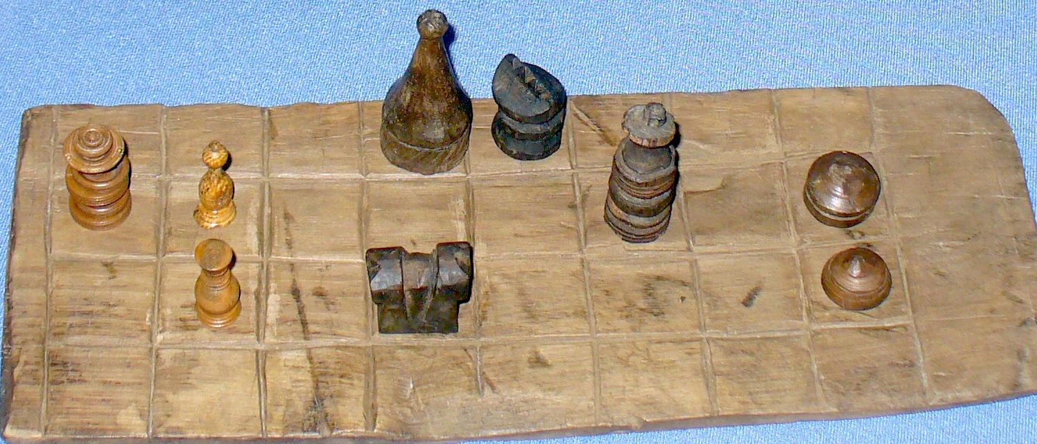 Fragment of a chessboard and chess pieces, Russia, XVII century (1601-1672). This image was originally uploaded by Лапоть, and made available under the Creative Commons CC0 1.0 Universal Public Domain Dedication. This image is a slightly trimmed version of the original image.